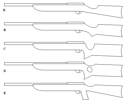 Image showing different grip shapes used in rifle stocks.